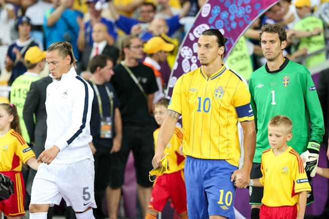 Philippe Mexès, Zlatan Ibrahimović and Andreas Isaksson at the Euro 2012 match Sweden-France